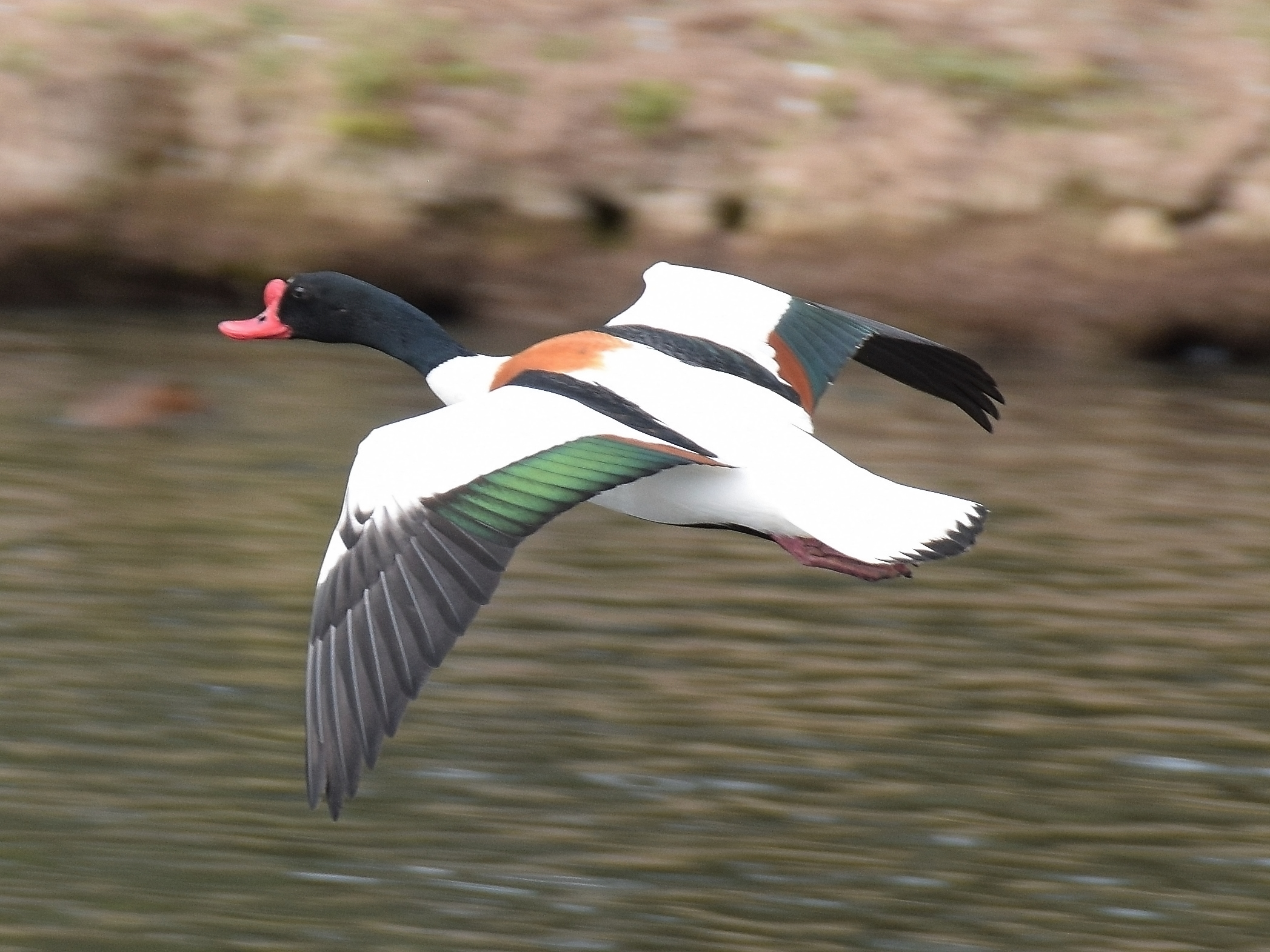 Common Shelduck (male) flying at Slimbridge Wetland Centre, Gloucestershire, England.